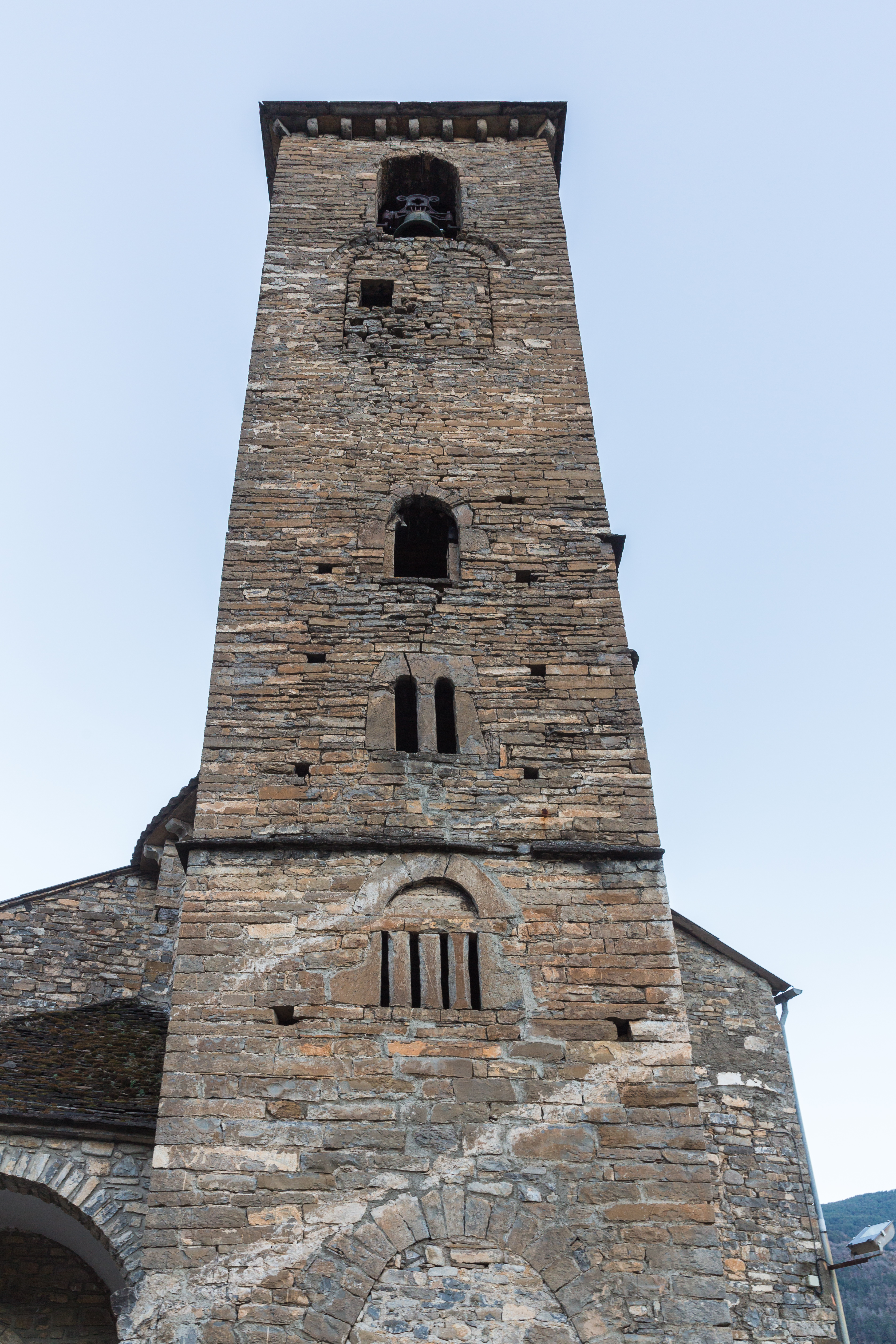 Church of San Saturnino, Oto, Huesca, Spain